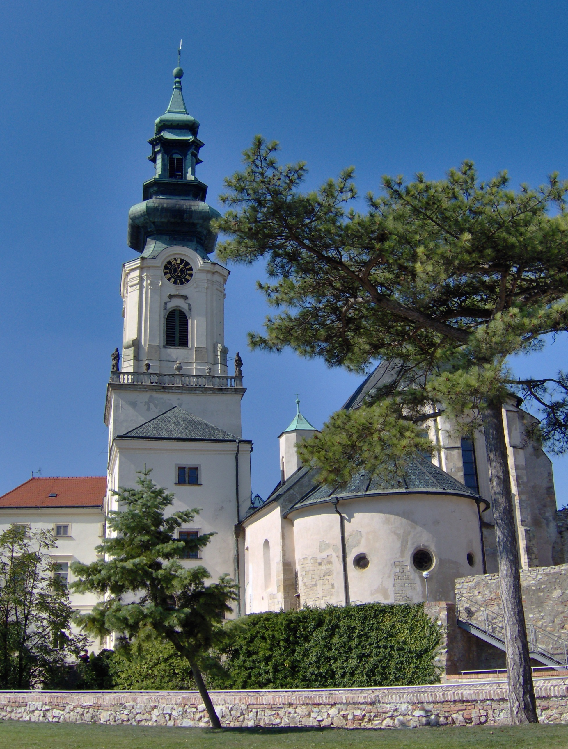 Nitra Castle